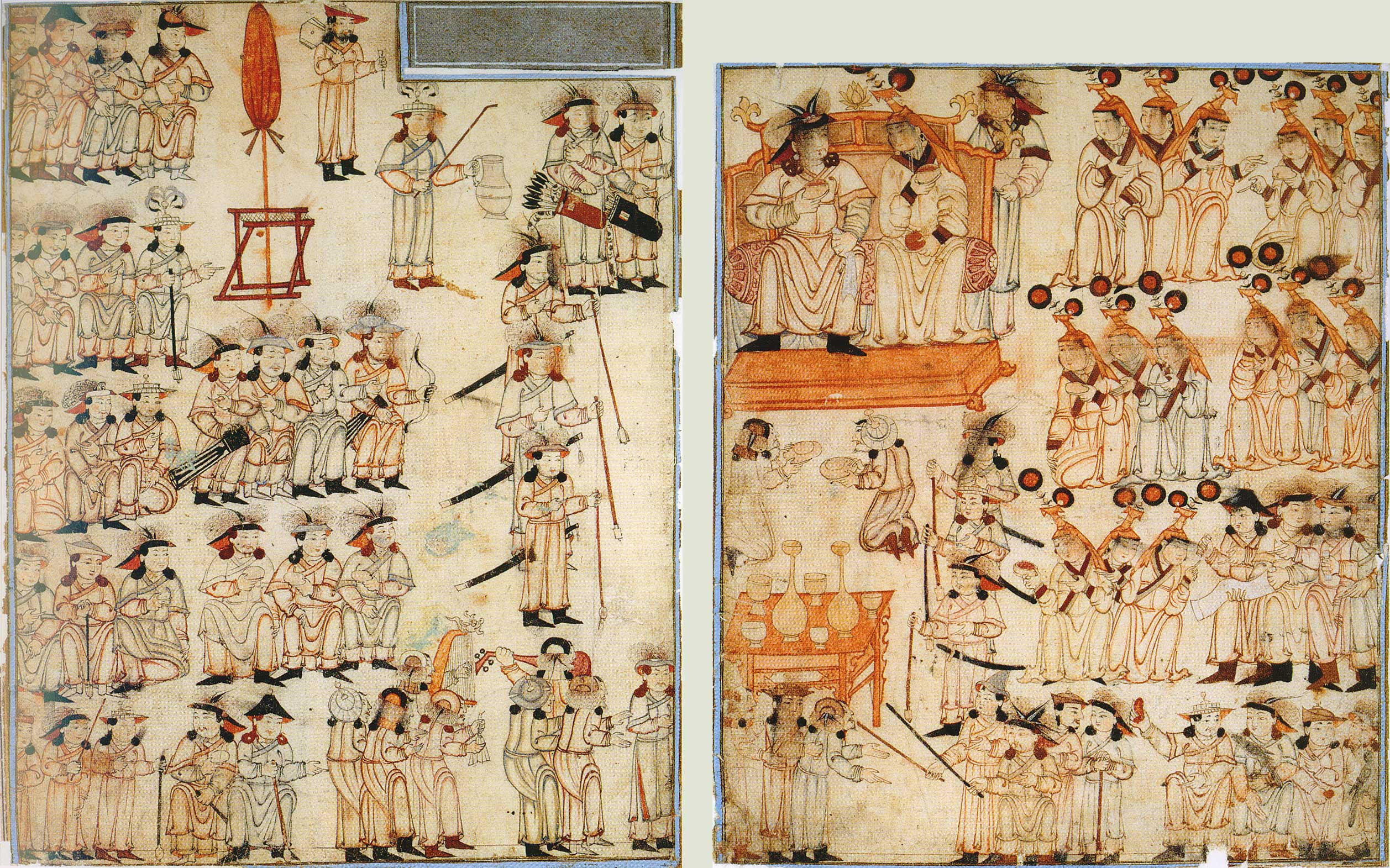 Enthronization of a Mongol ruler. Double-page illustration of Rashid-ad-Din's Gami' at-tawarih. Tabriz (?), 1st quarter of 14th century. Water colours on paper. Original size: 34.7 cm x 28.3 cm (right), 38.8 cm x 29.2 cm (left). Staatsbibliothek Berlin, Orientabteilung, Diez A fol. 70, p. 23 (right) and 20 (left). For only the left or only the right part of the illustration, see Image:DiezAlbumsEnthronization3_a.jpg and Image:DiezAlbumsEnthronization3_b.jpg. See also Image:DiezAlbumsEnthronization.jpg and Image:DiezAlbumsEnthronization2.jpg.